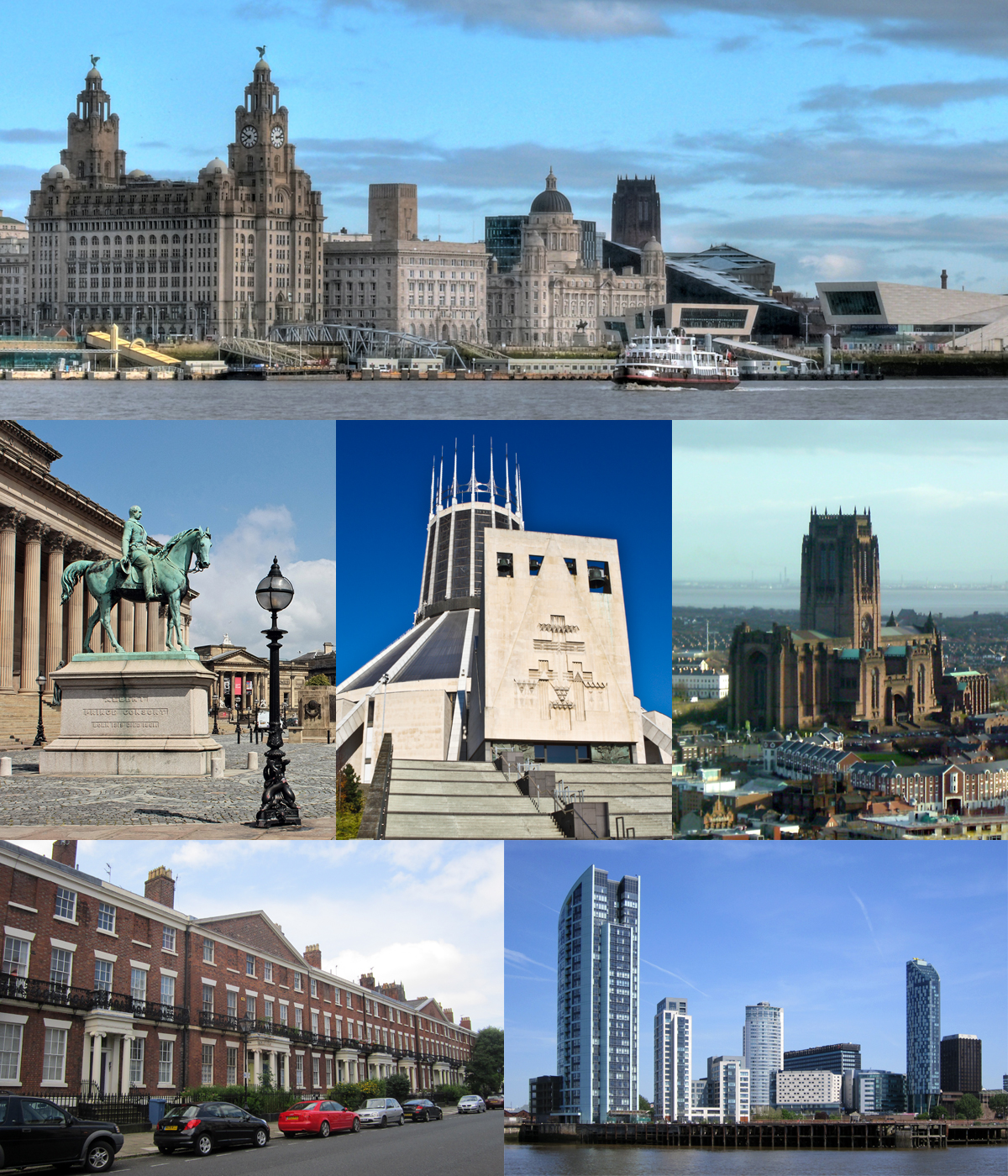 Montage of images of Liverpool. Pier Head and the Mersey Ferry St George's Hall and the Walker Art Gallery Catholic Cathedral Anglican Cathedral Canning Street Princes Dock Sources: File:Pier Head and Mersey Ferry Liverpool.jpg by Tim Dutton File:2911 07 26 Liverpool 04.jpg by Craigthornber File:Liverpool RC Cathedral Exterior (12644682235).jpg by Michael D Beckwith File:Liverpool Anglican Cathedral with Mersey.jpg by Super Rabbit One File:Canning Street, Liverpool (7).JPG by Rept0n1x File:Buildings near Princes Dock, Liverpool - from the Mersey Ferry.jpg by Rept0n1x